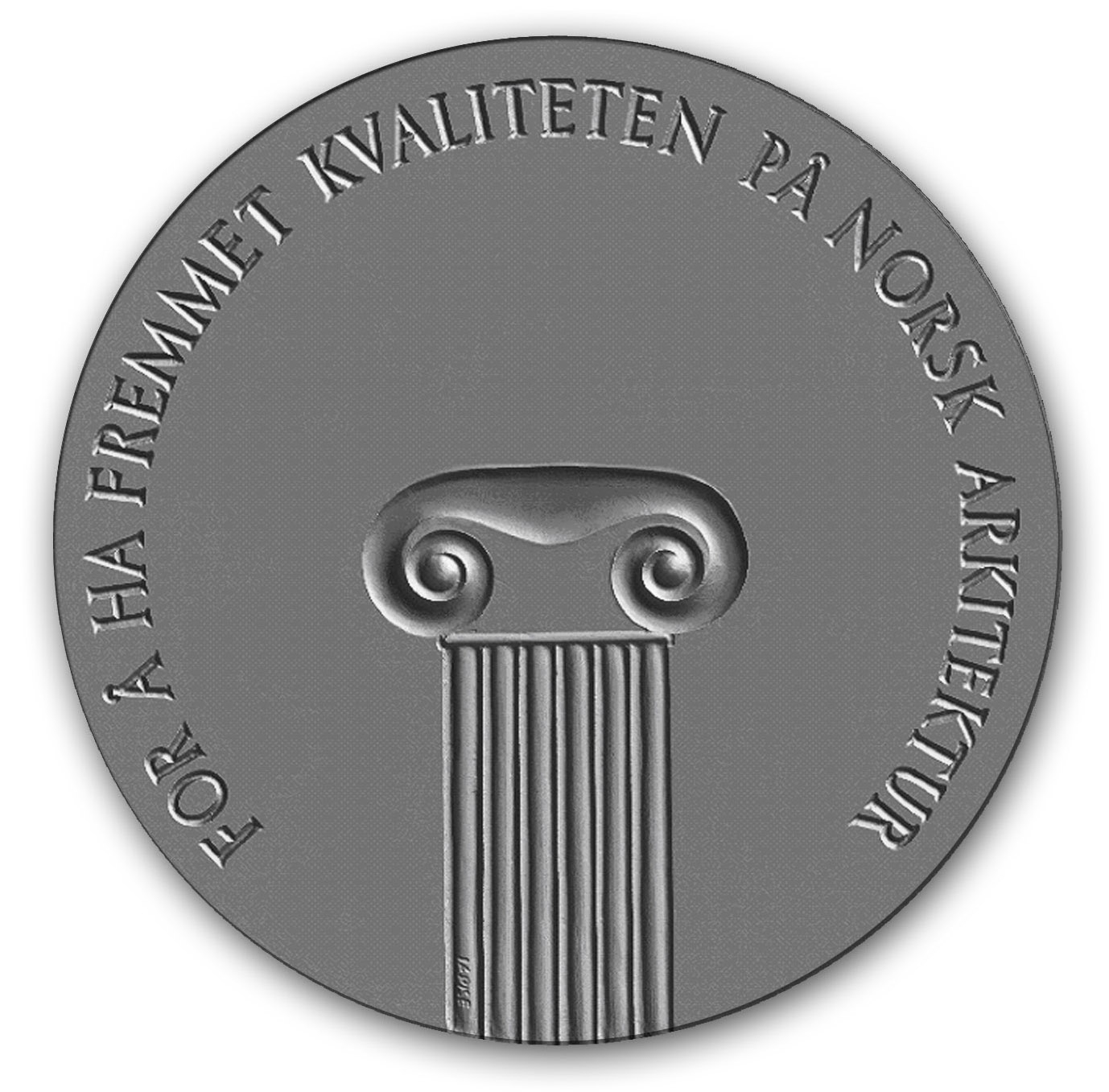 The reverse of The Grosch medal, a Norwegian architecture prize